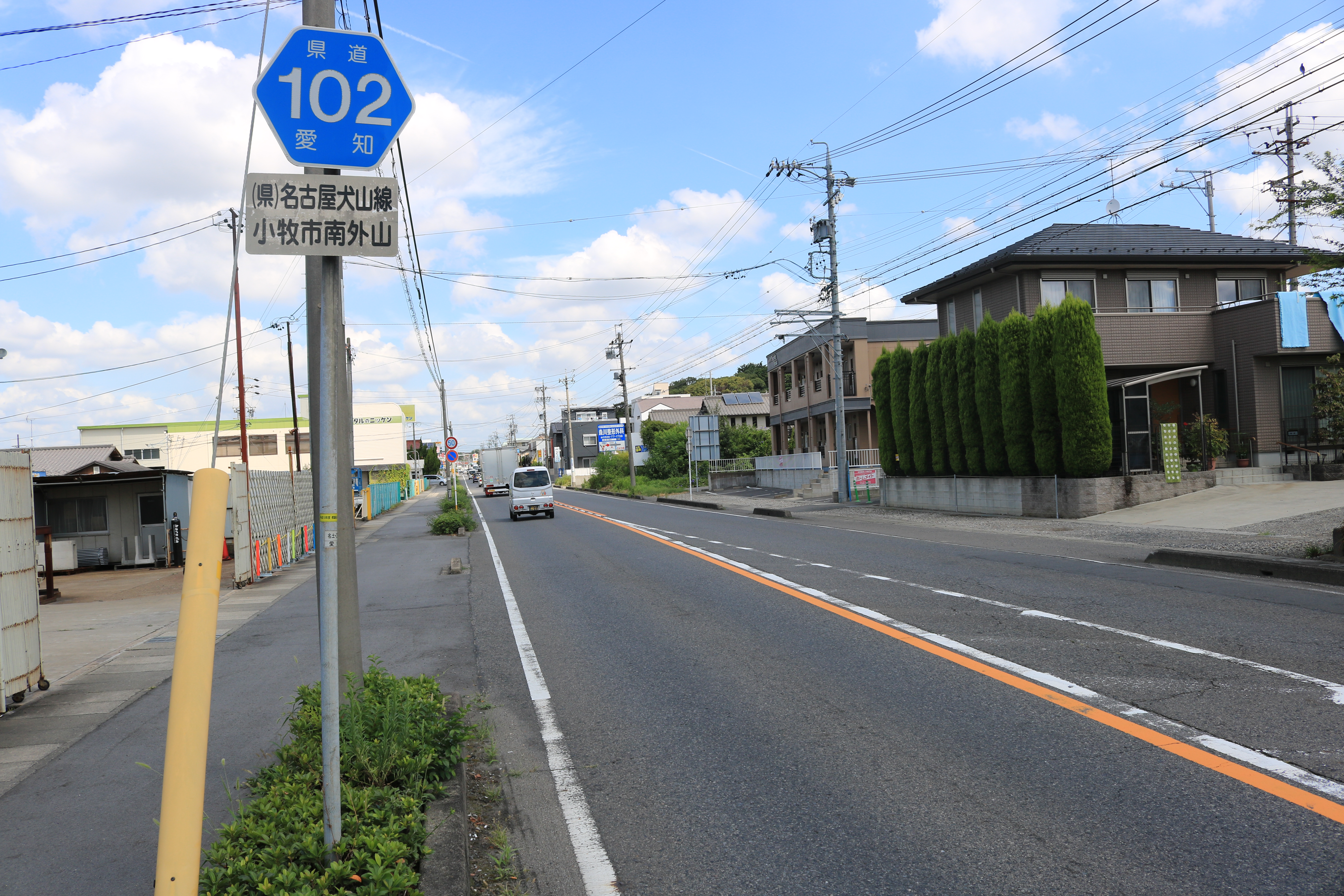 Aichi Prefectural Road Route 102 in Minamitoyama, Komaki, Aichi prefecture, Japan.